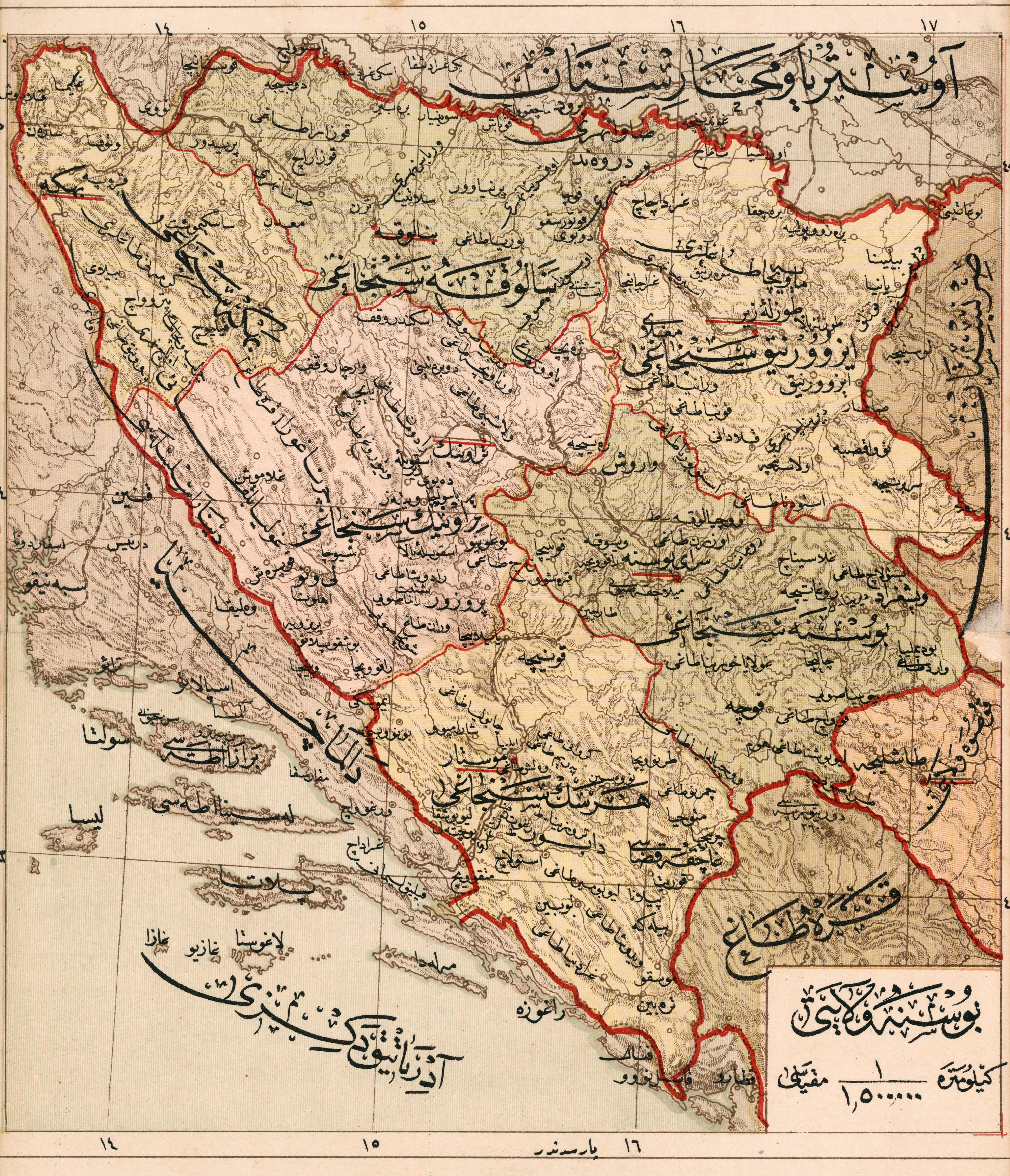 Bosnia Vilayet — Memalik-i Mahruse-i Şahaneye Mahsus Mukemmel ve Mufassal Atlas (1907)